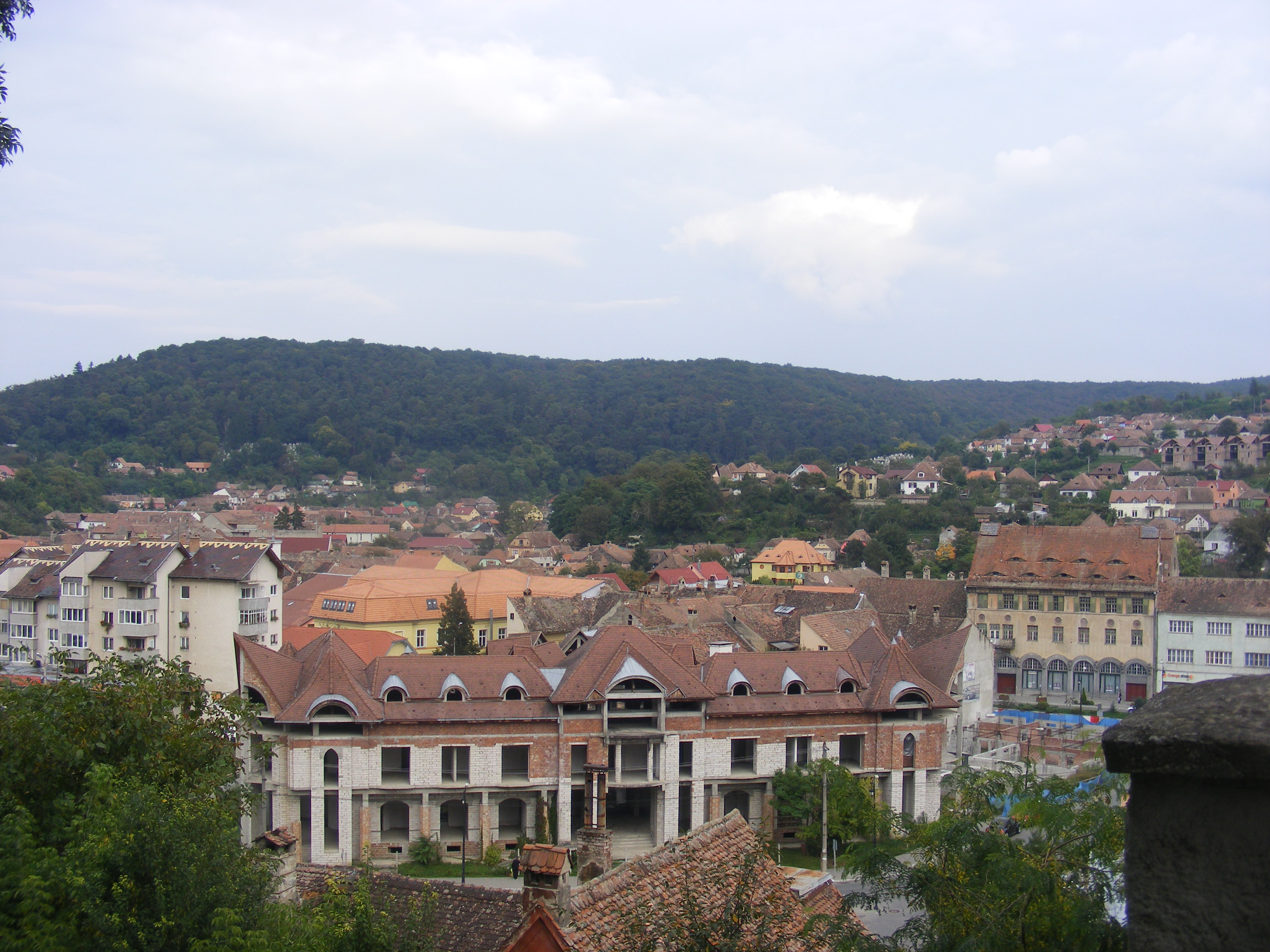 Segesvár (Sighişoara), in Transsilvany.